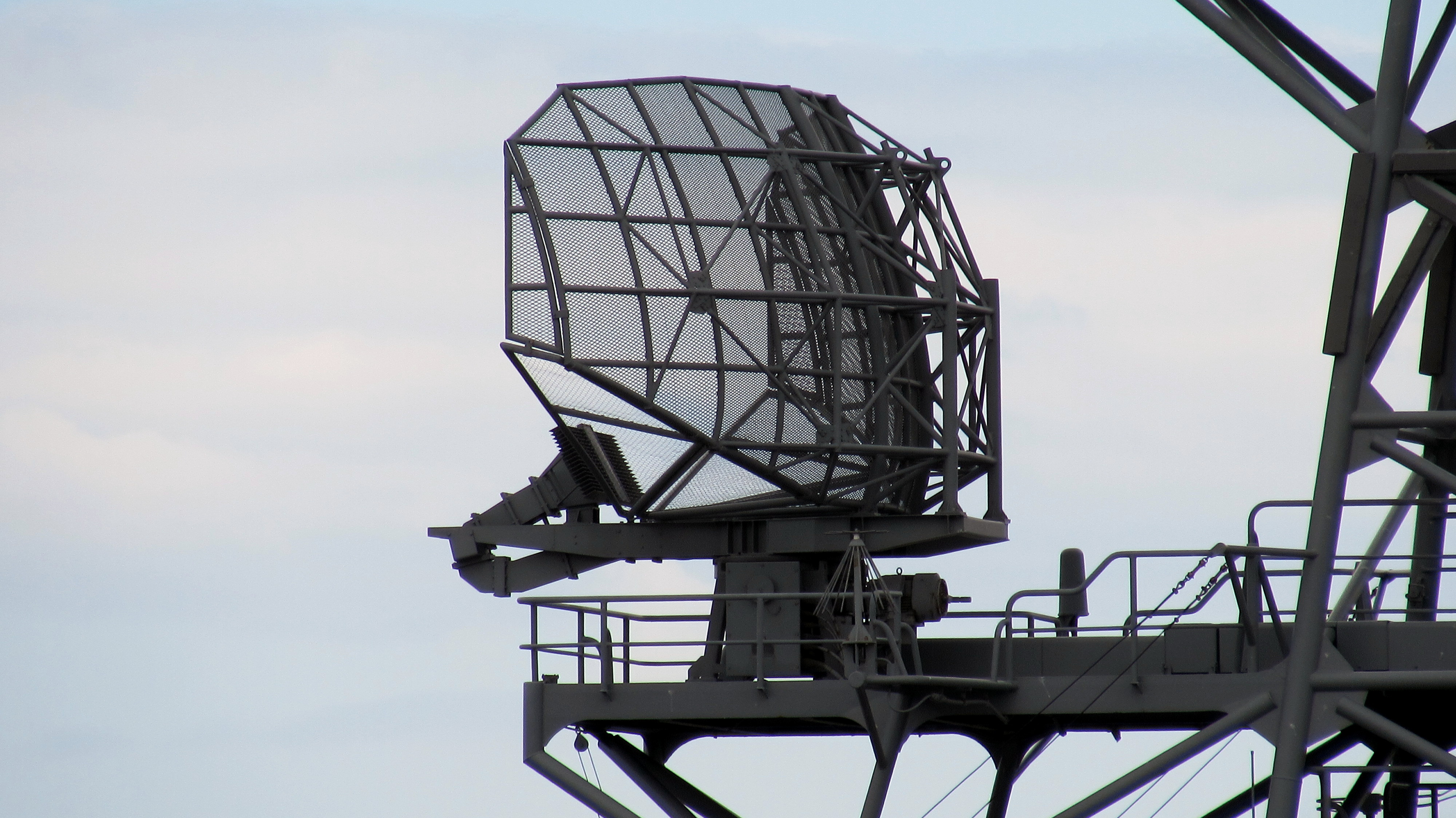 The OPS-14 Air Search Radar (ASR) of the JS Amagiri (DD-154), an Asagiri class Destroyer of the Japanese Maritime Self Defense Force (JMSDF). Photo taken at the Manila South Harbor.